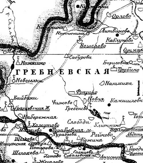 Map of the now-defunct Khomutovsky tract. North-east of Moscow Governorate. Russia.